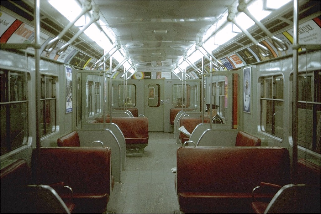 A TTC G-1 Series Subway Car interior. This pair were the only G-cars to have fluorescent lighting.